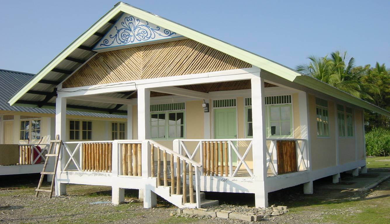 houses built by emergency architects, indonesia